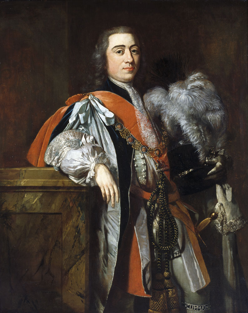 William IV of Oange-Nassau in garter robes